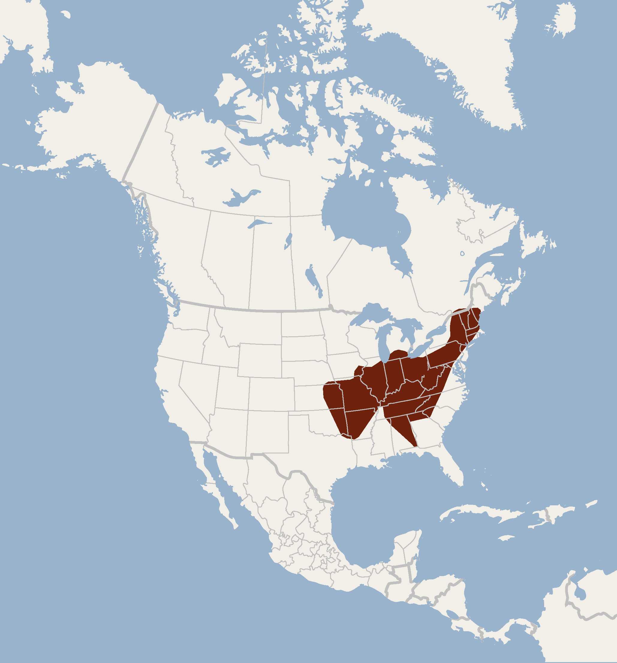 Geographical distribution of Myotis sodalis according to Kays & Wilson, 2009